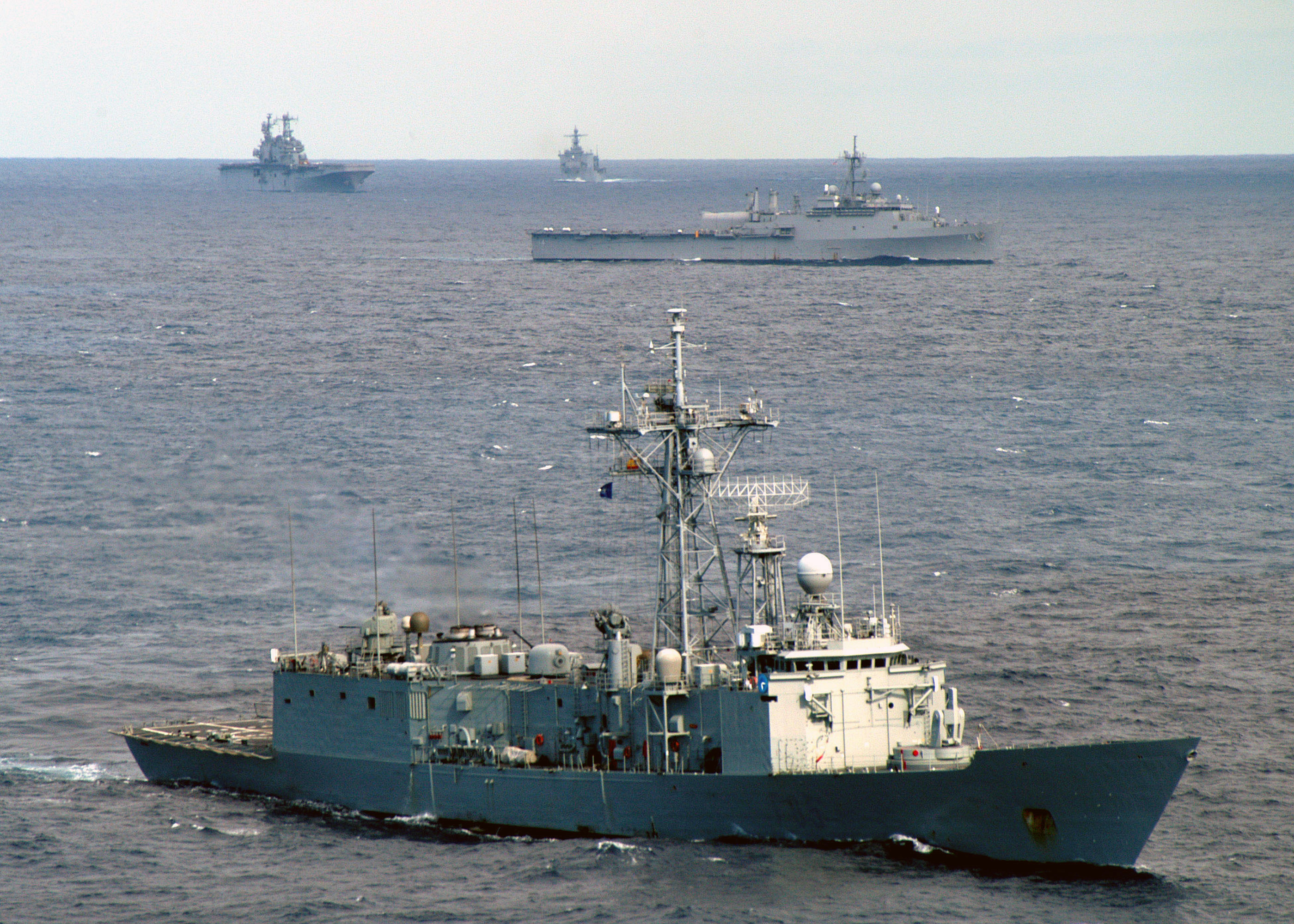 US Navy (USN) and Spanish Navy ship maneuver through the waters of the Atlantic Ocean while participating in the North Atlantic Treaty Organization (NATO) Exercise Standing Naval Force Atlantic (SNFL). The Standing Naval Force is a squadron of eight to ten destroyers and frigates from different nations in the NATO organization. Pictured foreground-to-background: The Spanish Navy, Santa Maria Class Frigate, Navarra (F 85); the USN Austin Class Amphibious Transport Docks, USS Trenton (LPD 14); the USN Tarawa Class Amphibious Assault Ship, USS Saipan (LHA 2), and the USN Oliver Hazard Perry Class Frigate, USS Simpson (FFG 56).